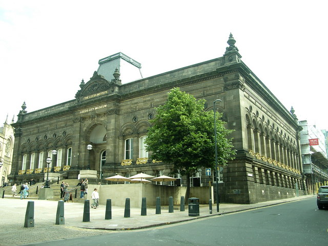 The Leeds Institute, Cookridge Street Built 1865/68 as the Mechanics Institute by Cuthbert Brodrick